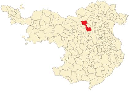 Cabanelles